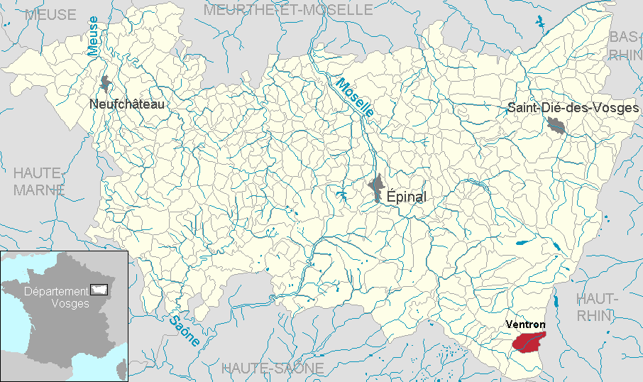 Ventron in the department of Vosges, Lorraine, France